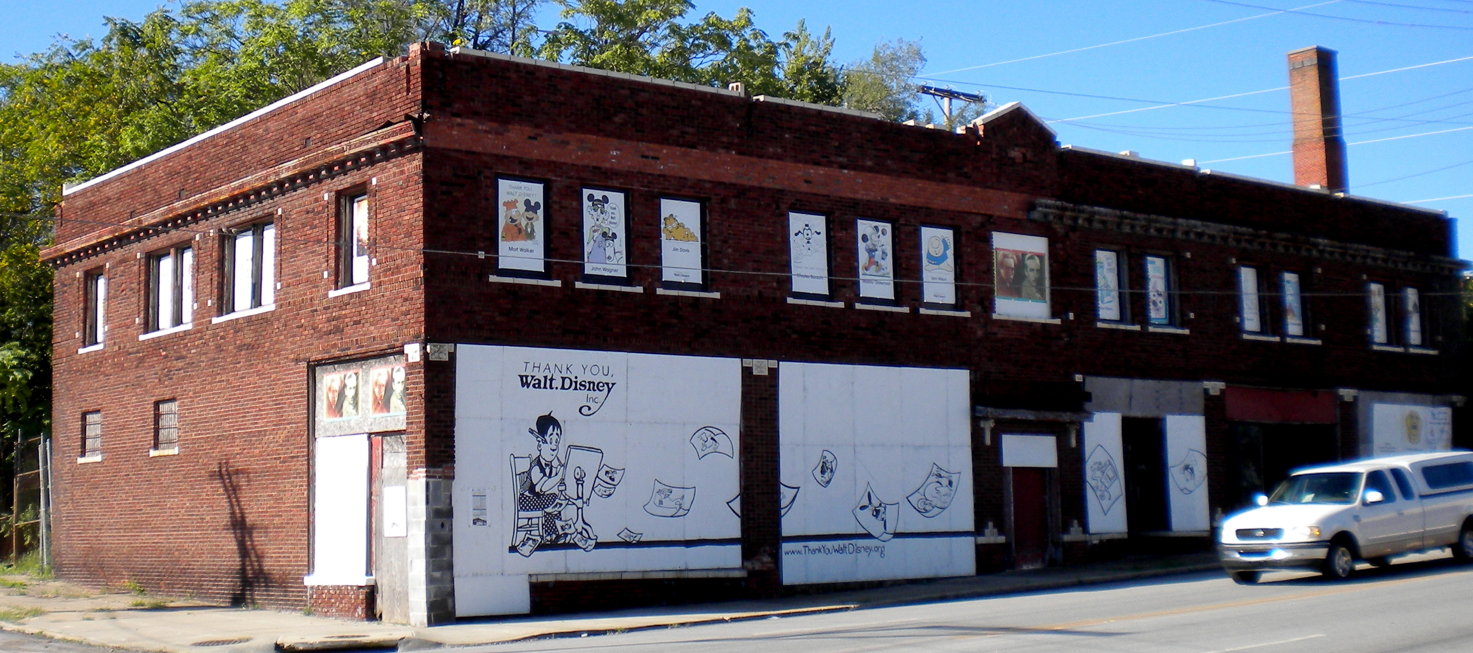 Laugh-O-Gram studios in August, 2010